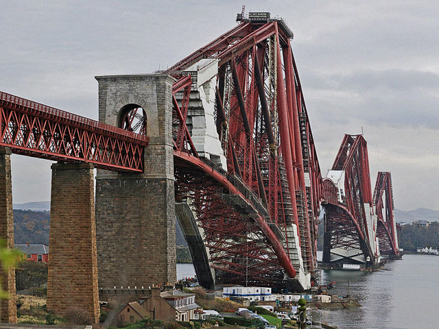 Forth Rail Bridge from north, Shot with Canon 5D and Canon EF 70-200 2.8 portrait format on tripod, Stitched with Panoramafactory from 3 single shots, Original resolution 6440 x 4330 pixels equals 26,6 megapixels